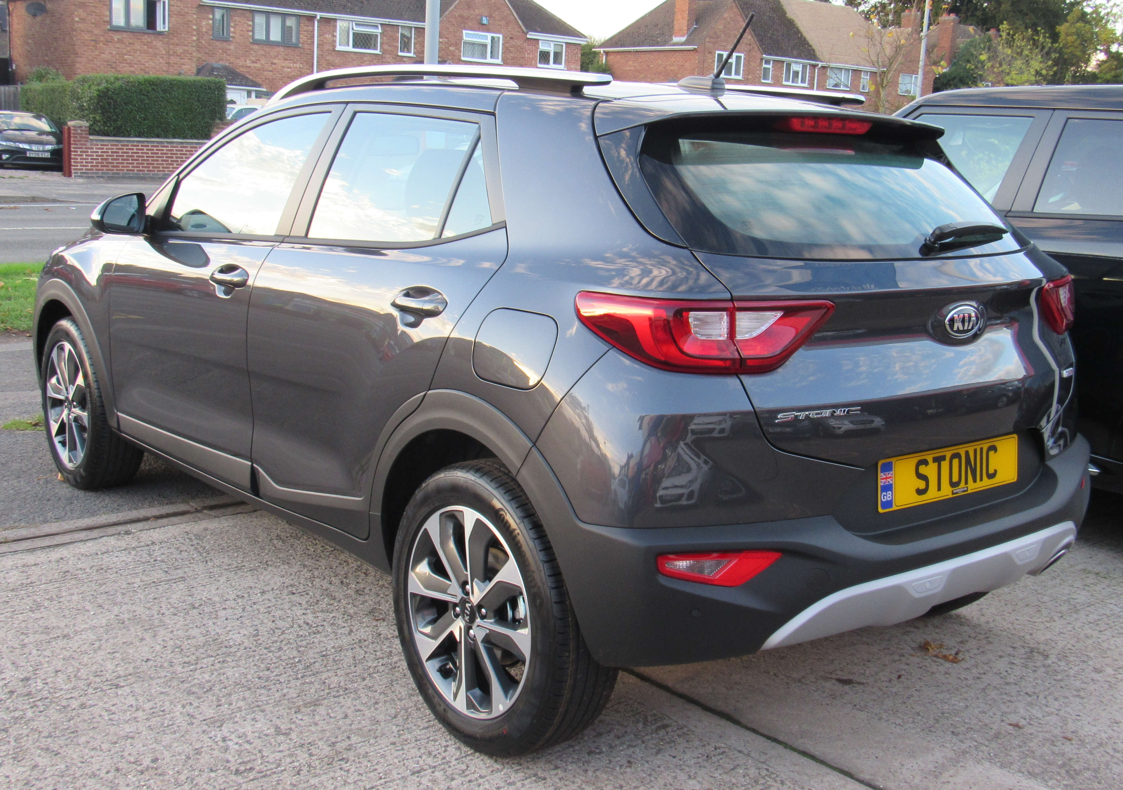 2017 Kia Stonic Rear Taken in Warwick